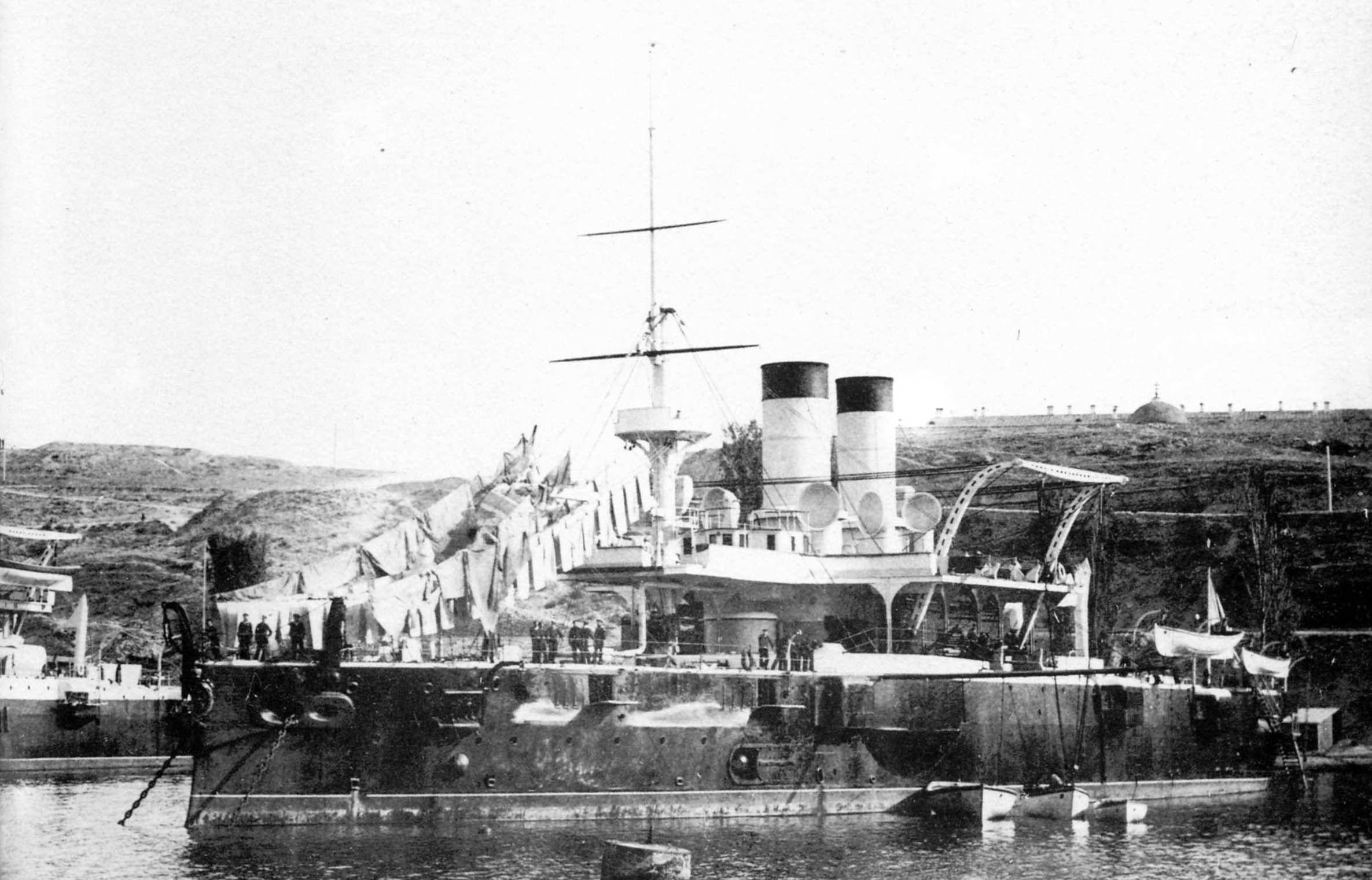 Imperial Russian Ironclad warship Ekaterina II in Sevastopol.